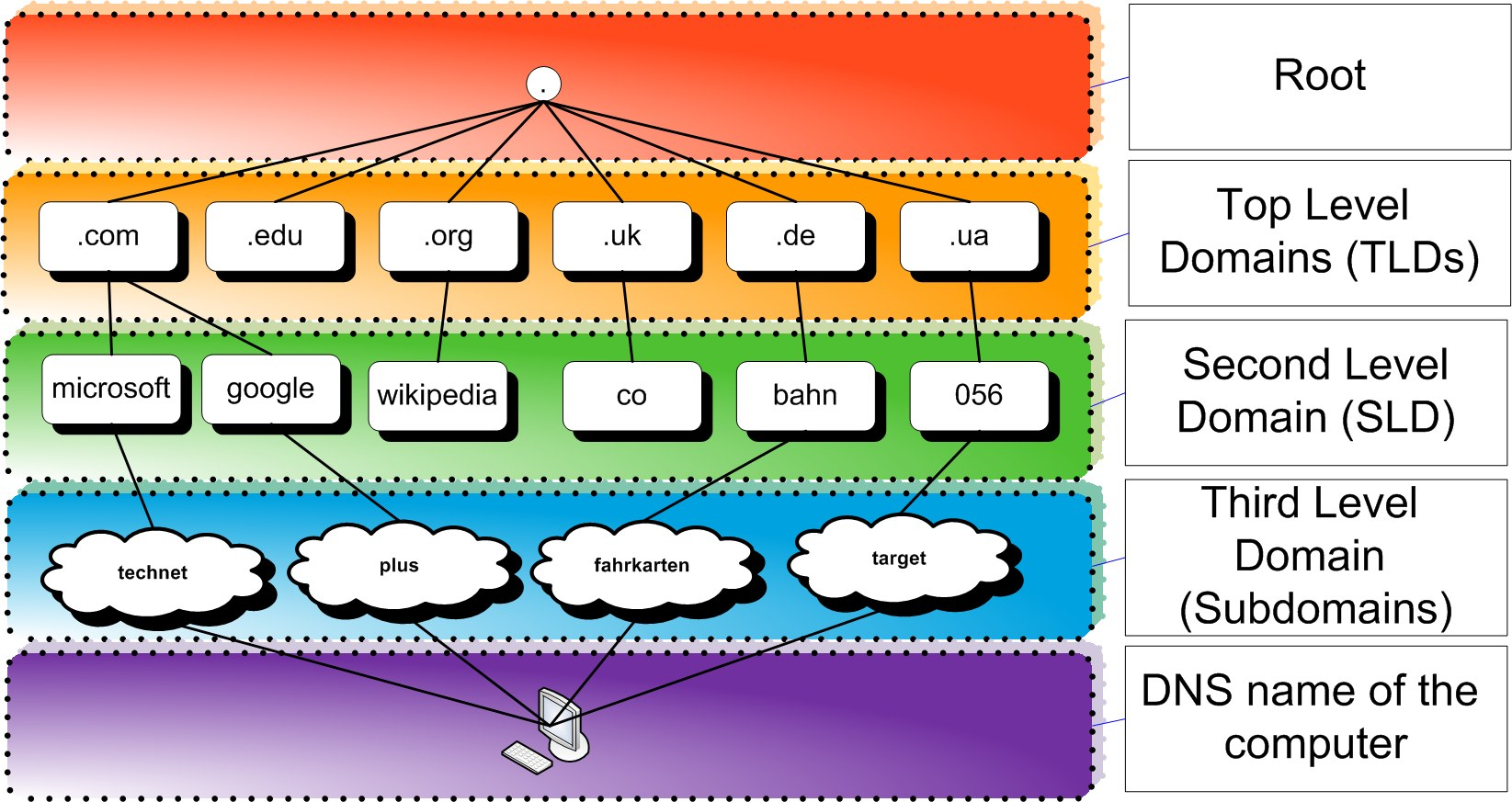 The structure of DNS